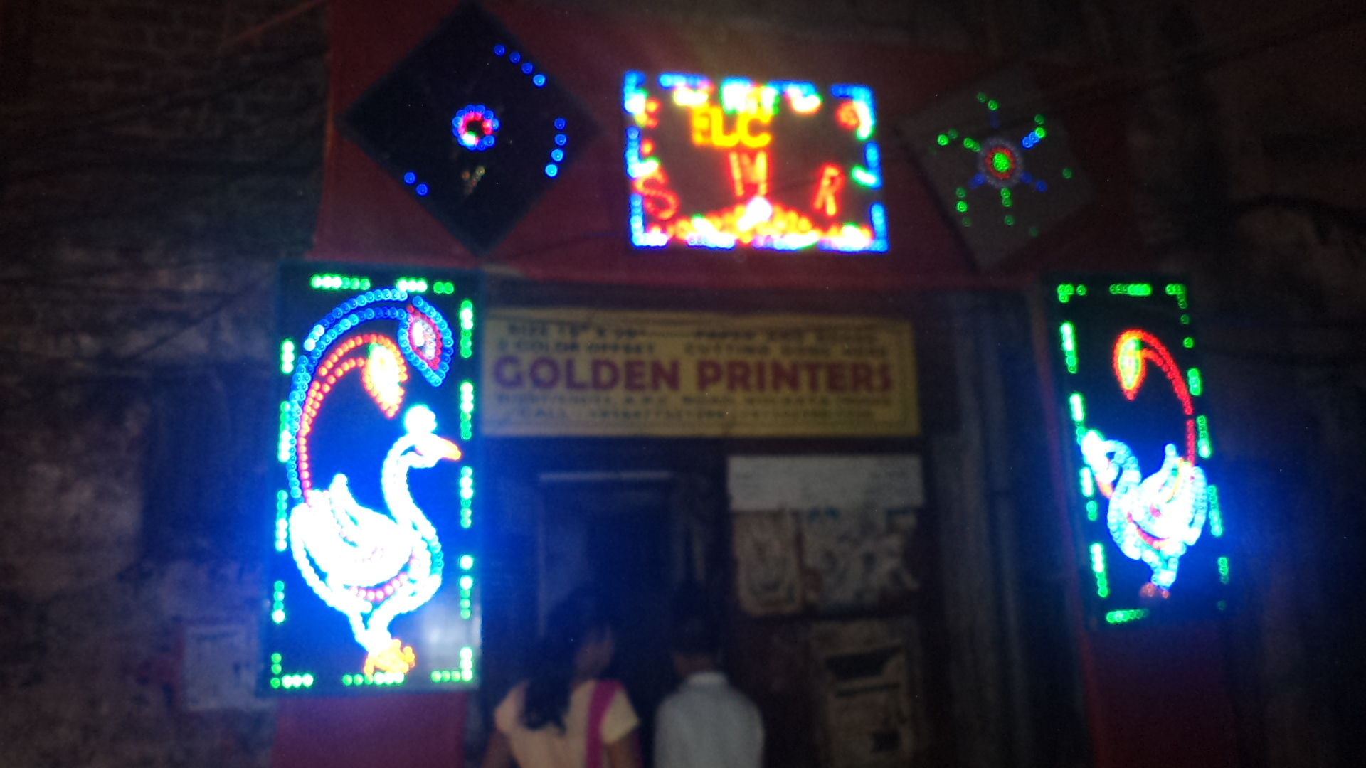 Nawab Soap Comapny Main Entrance During Wedding of Late Haji Abdur Raheem Grand Son Azharuddin Ahmed on 2015